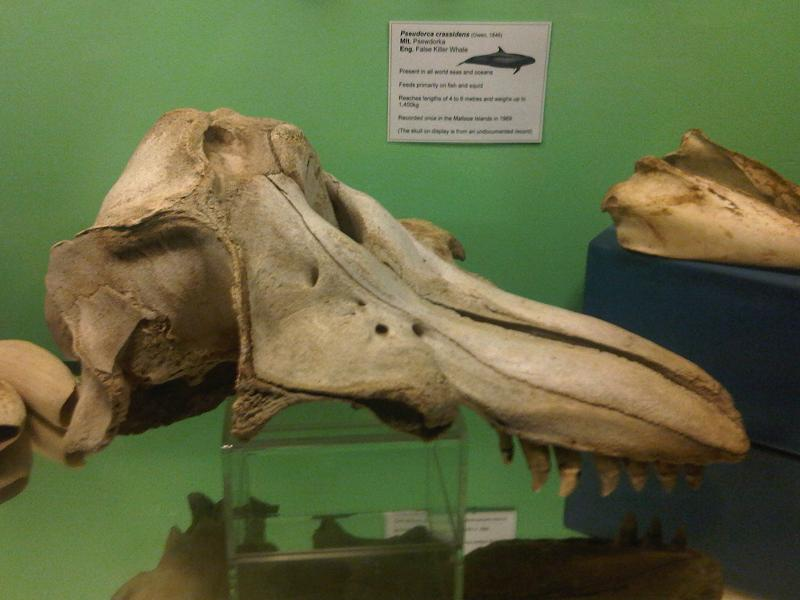 The skull and upper jawbone or maxilla of a false killer whale (Pseudorca crassidens) at the National Museum of Natural History, Vilhena Palace, Republic of Malta.